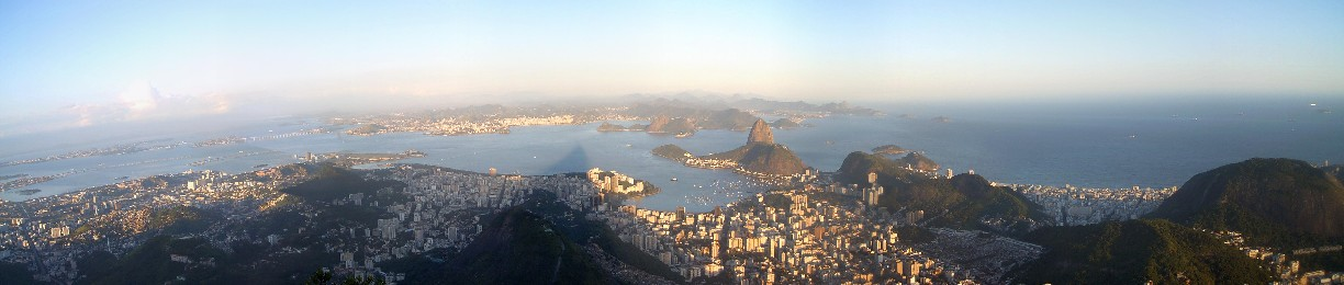 This image was copied from pt. The original description was: Vista 180o. do Cristo Redentor